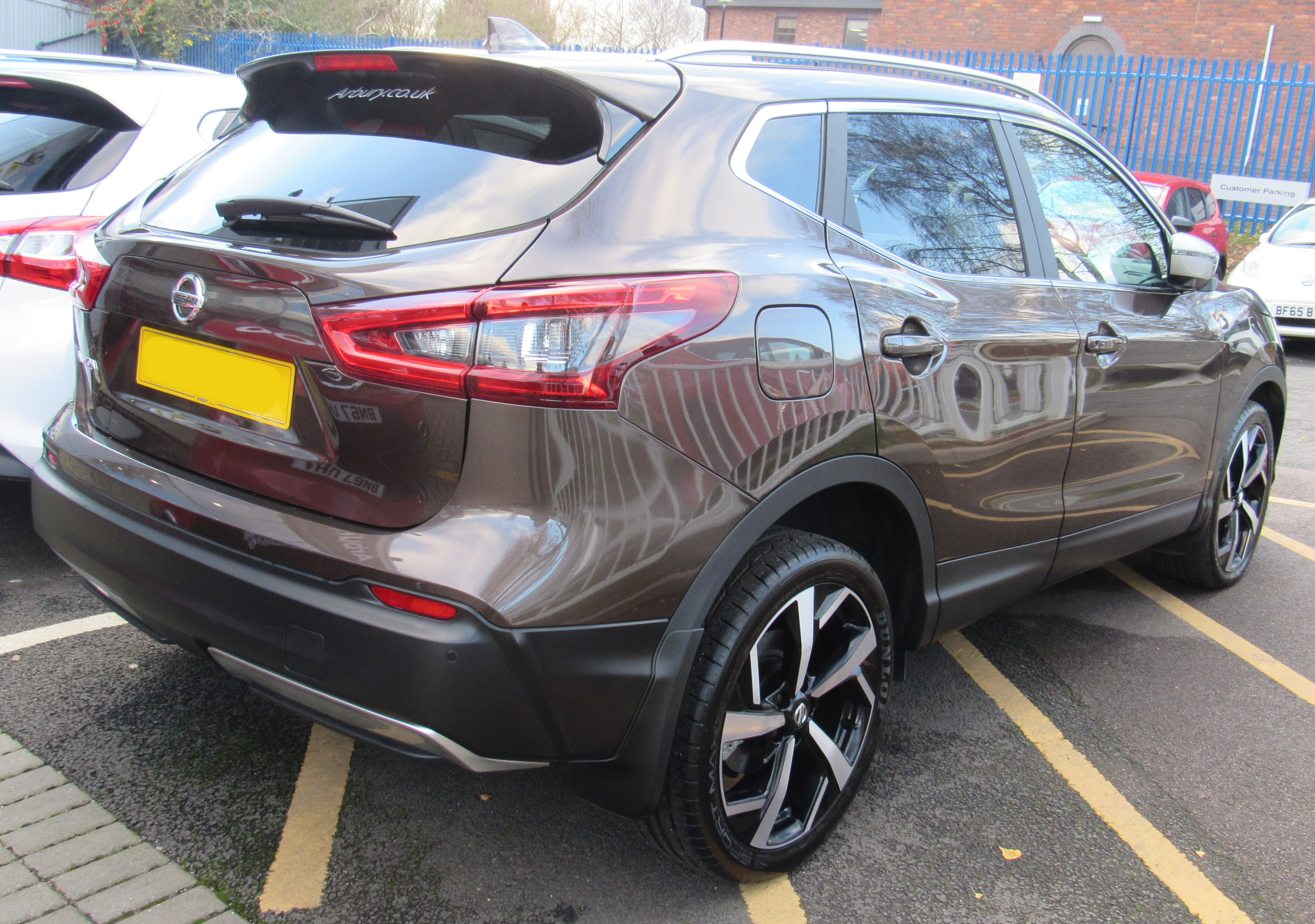 2017 Nissan Qashqai Tekna+ DCi CVT 1.6 facelift Rear Taken in Leamington Spa